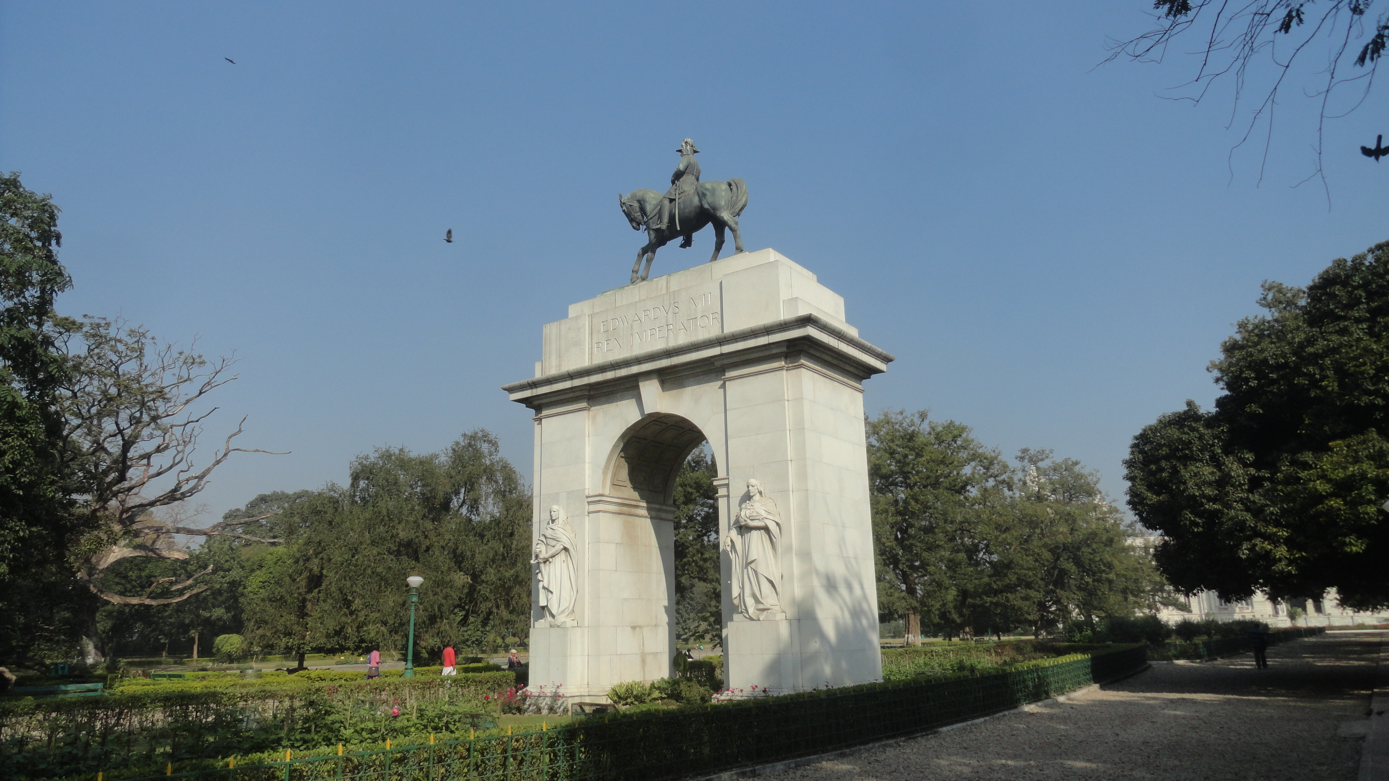 back side gate of victoria memorial. kolkata